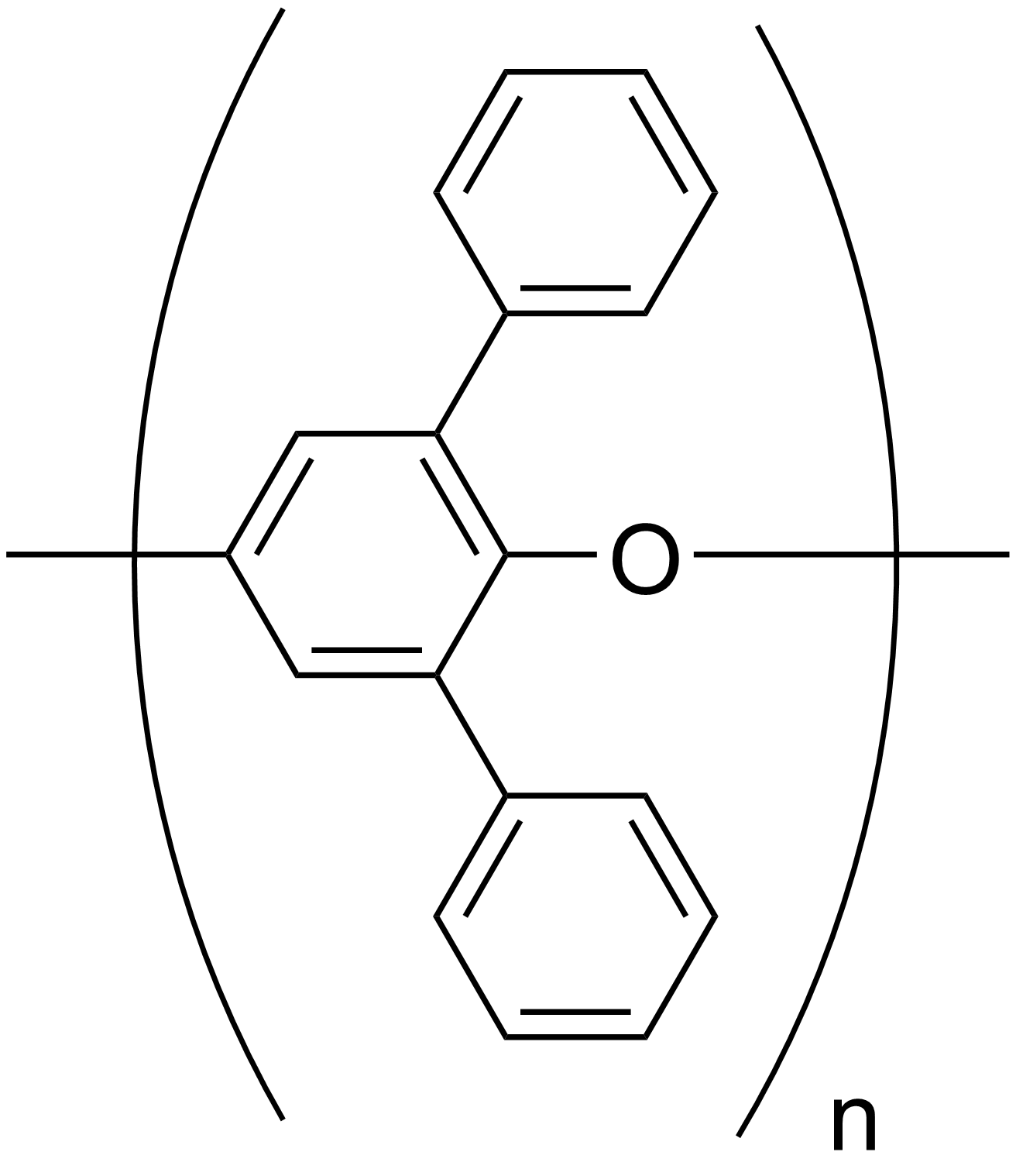 Chemical structure of Poly(2,6-diphenylphenylene oxide)